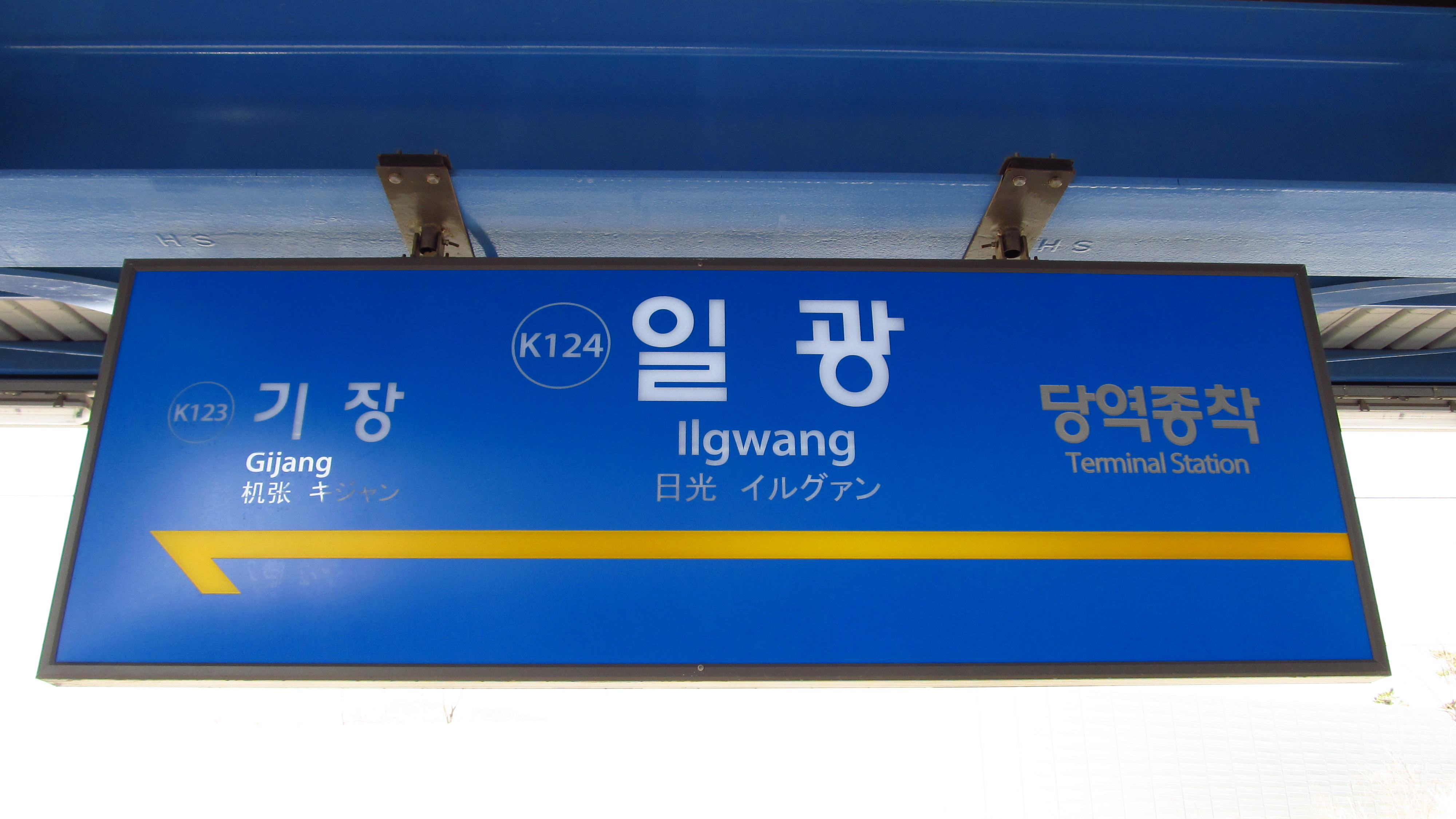 The station sign at Ilgwang Station on the Donghae Line in Gijang-gun, Busan, Republic of Korea(South Korea)